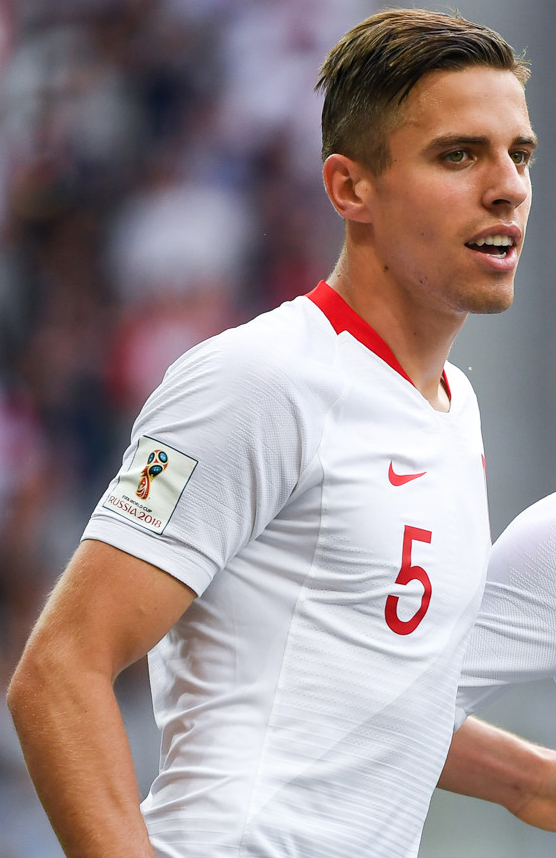 Polish footballer Jan Bednarek on 28 June 2018, during the 2018 FIFA World Cup group stage match between Poland and Japan.